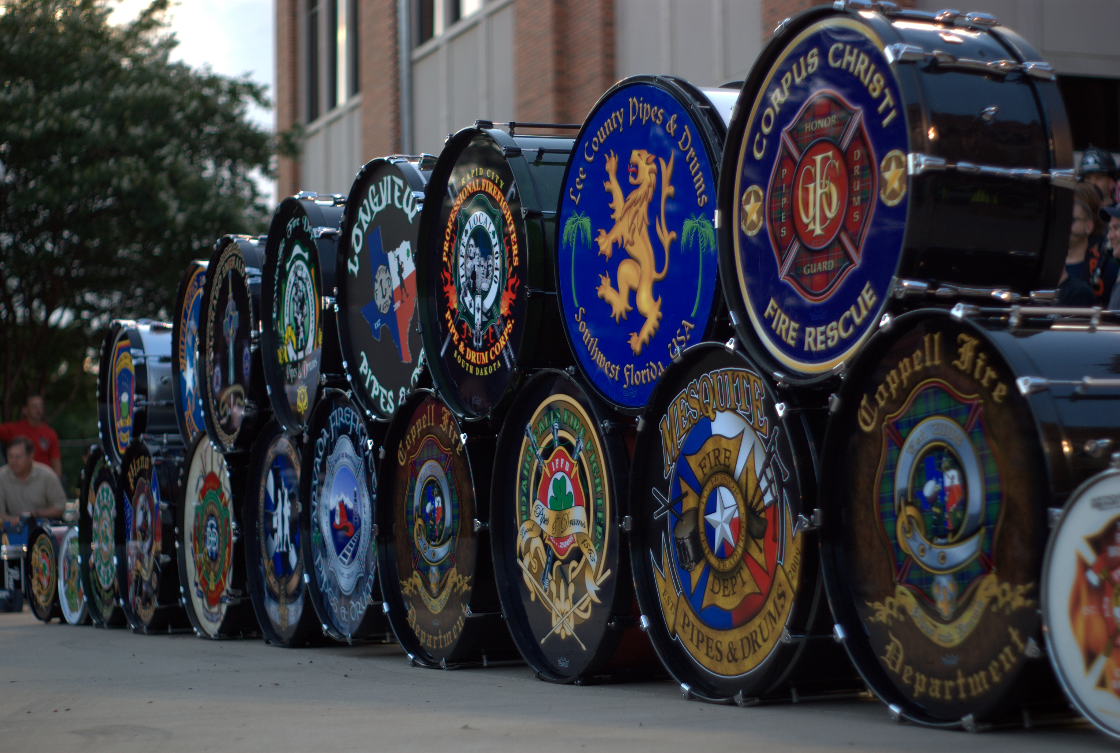 drums fire groups